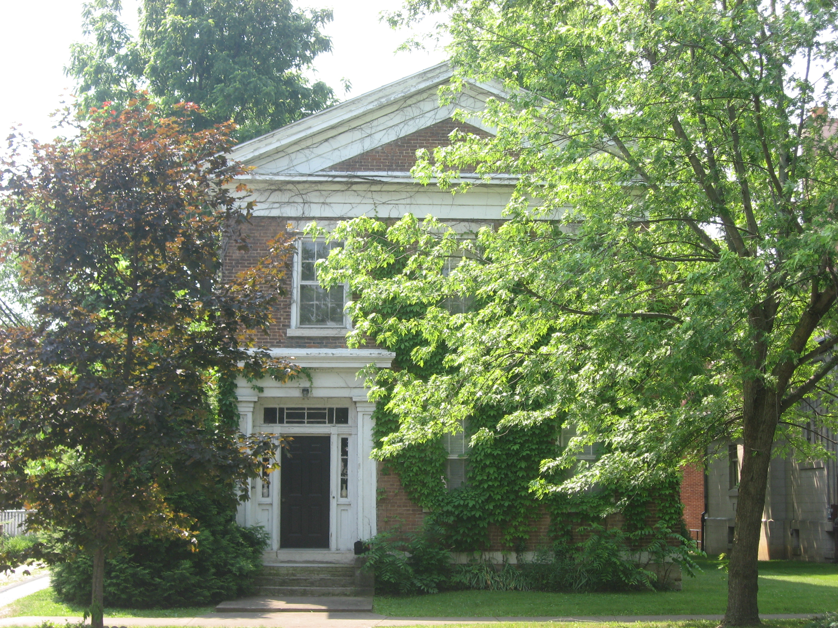 Front of the Foreman-Case House, located at 312 E. Main Street (State Road 25) in Delphi, Indiana, United States. Built in 1851, it is listed on the National Register of Historic Places.